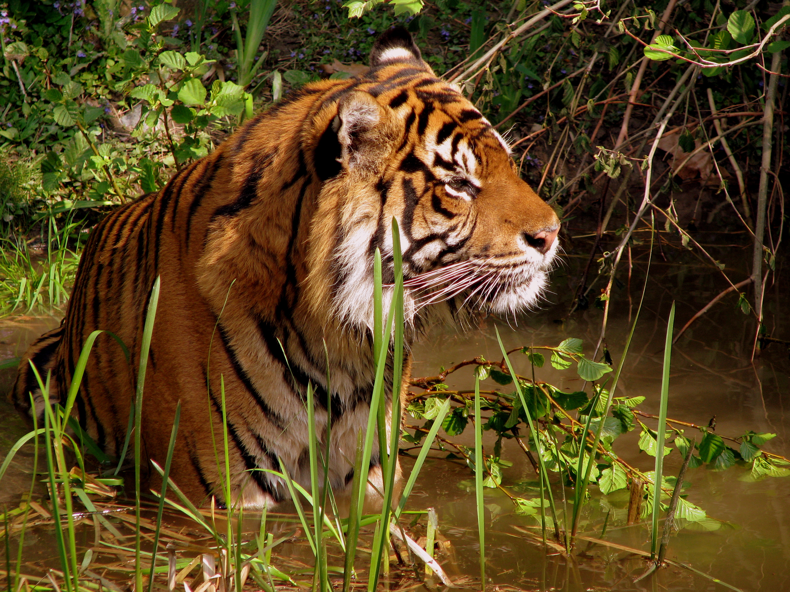 ... and this is my private bathroom